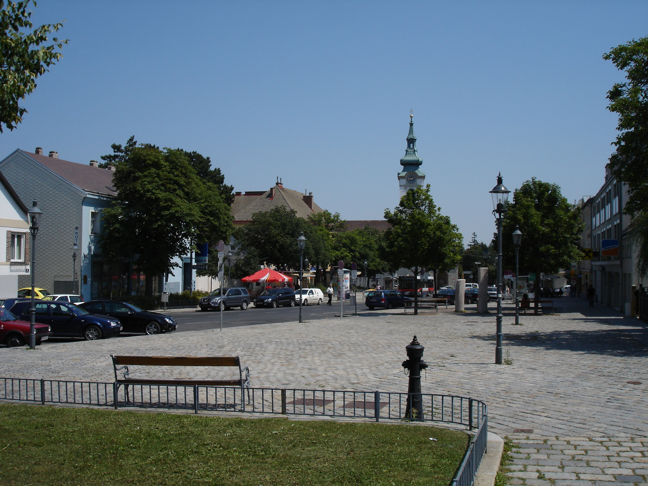 The Main Square (Hauptplatz) of the Mauer sub-district of Liesing, which in return is the 23rd District of Vienna, Austria.